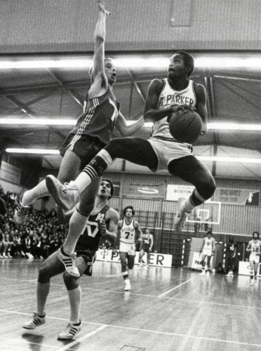 Tony Parker, Sr (right) going up against Lace Strong (left), while playing for Parker Leiden in 1980.